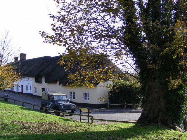 The Green at Tolpuddle It is believed that whilst sitting under this sycamore tree the six Tolpuddle Martyrs aired their grievances and agreed to form a trade union. In 1834 they were tried at Dorchester assizes for petty crimes and were transported for seven years to Australia and New Zealand.